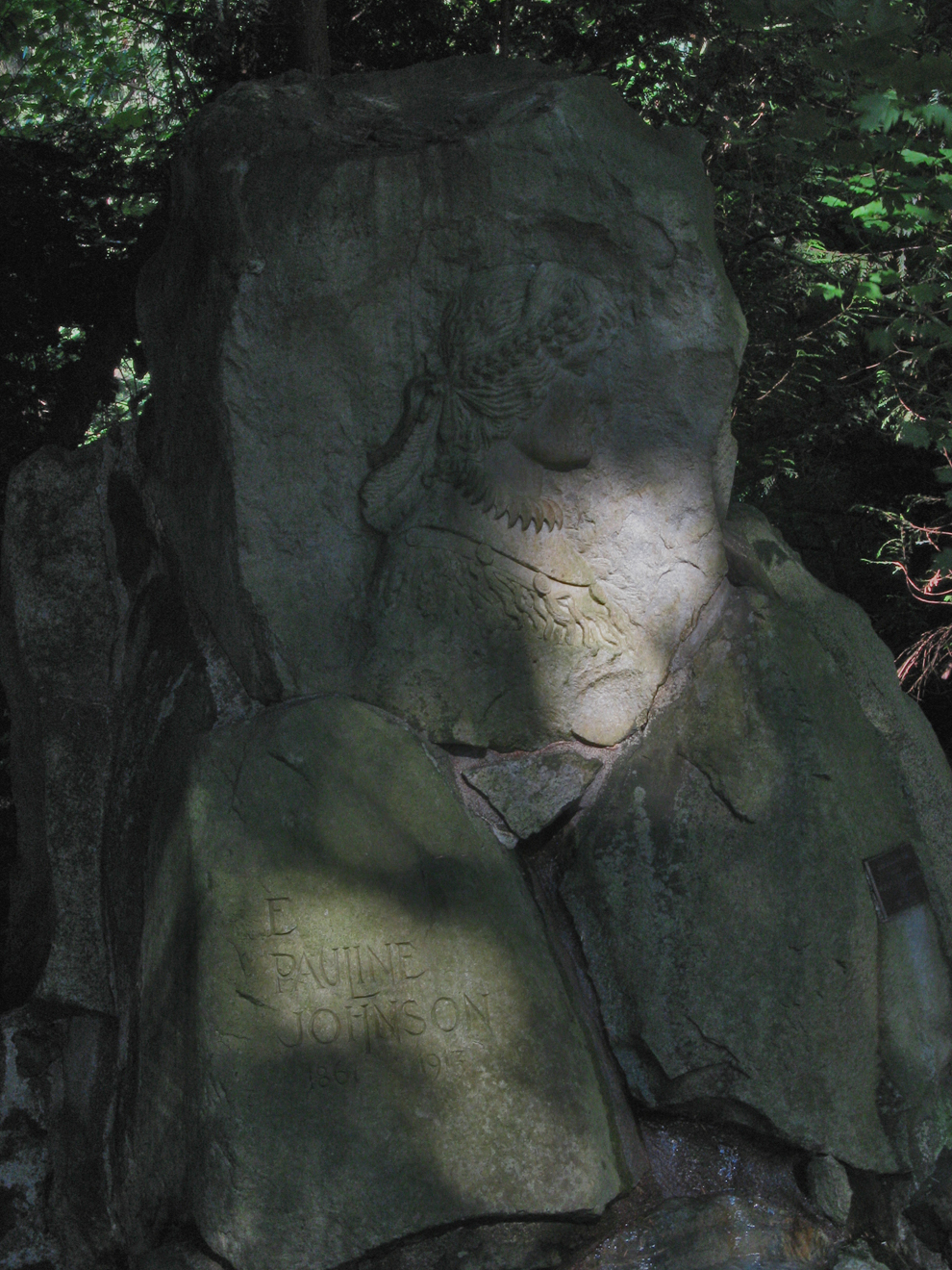 Pauline Johnson monument in Stanley Park, Vancouver